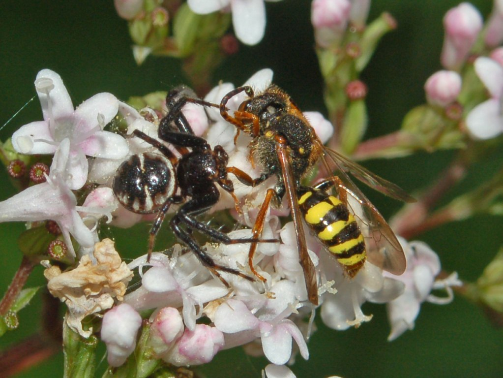 Synema globosum in Val Noci, Genova, Italy